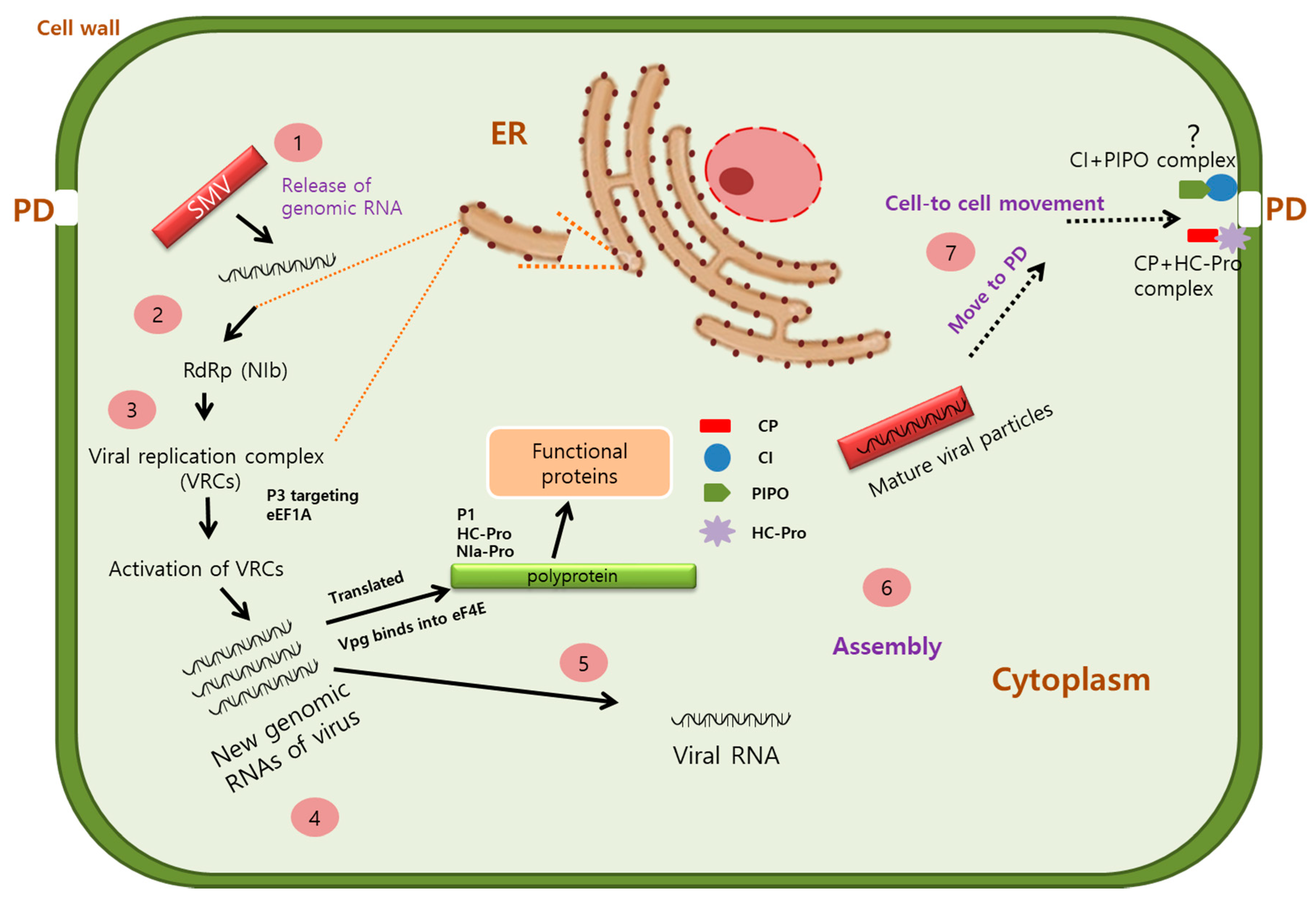 Replication and movement of soybean mosaic virus (SMV) within the cell. SMV enters the plant cell through natural openings such as the plasmodesmata (PD) or openings on the plant surface resulting from mechanical injury. Upon SMV entry, the viral genomic RNA is released and translated. Following translation of the viral proteins, virus particles assemble, and the new virus progeny move to neighboring cells. Virus movement is assisted by several functional proteins. The coat protein (CP) protects the genomic RNA, prevents degradation of viruses or virus components by host factors, and delivers the genomic RNA to PD. At PD, the proteins CI and PIPO form a CI-PIPO complex to coordinate the formation of the PD-associated structure which facilitates the intracellular movement of the virus.